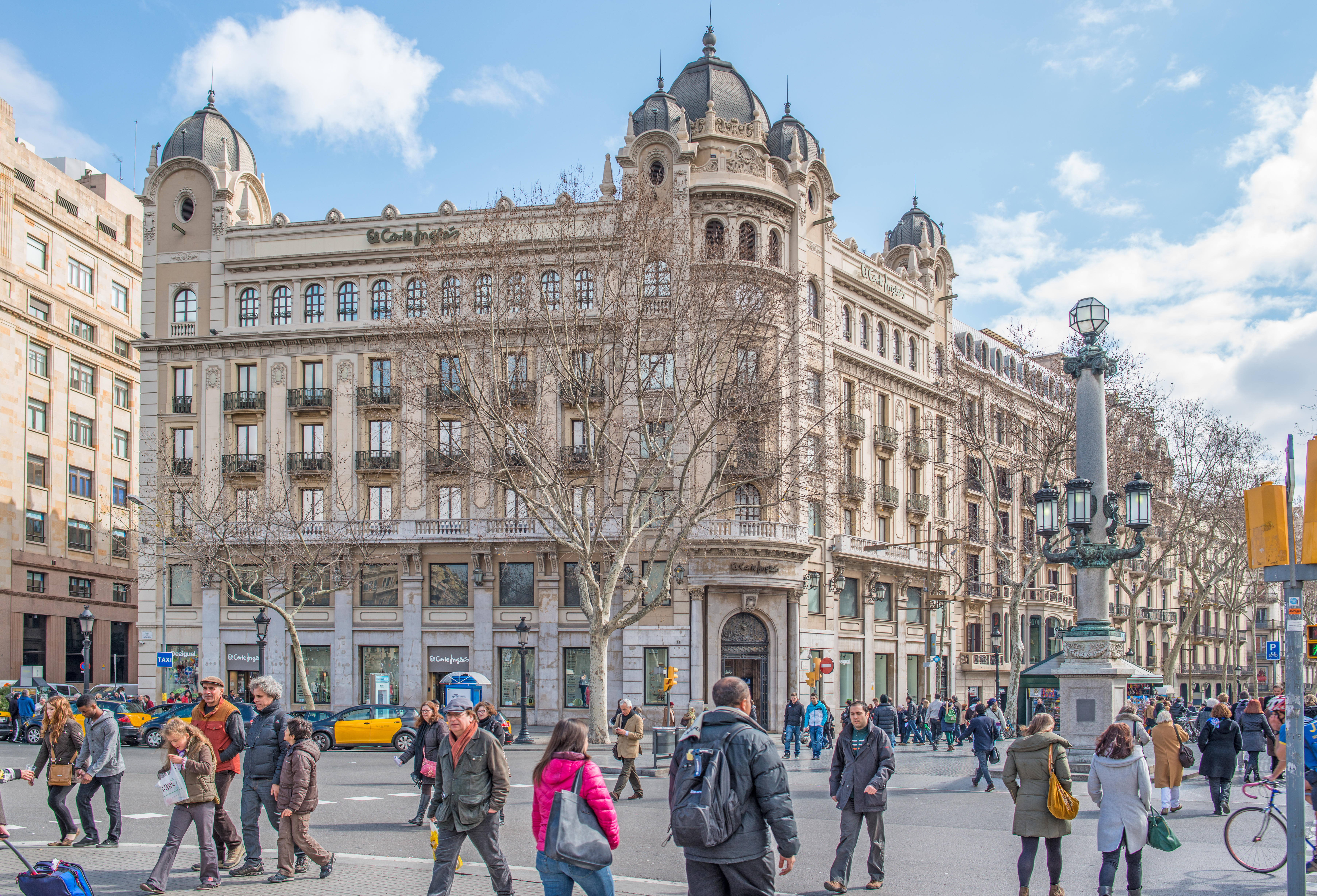 Barcelona Spain February 2013